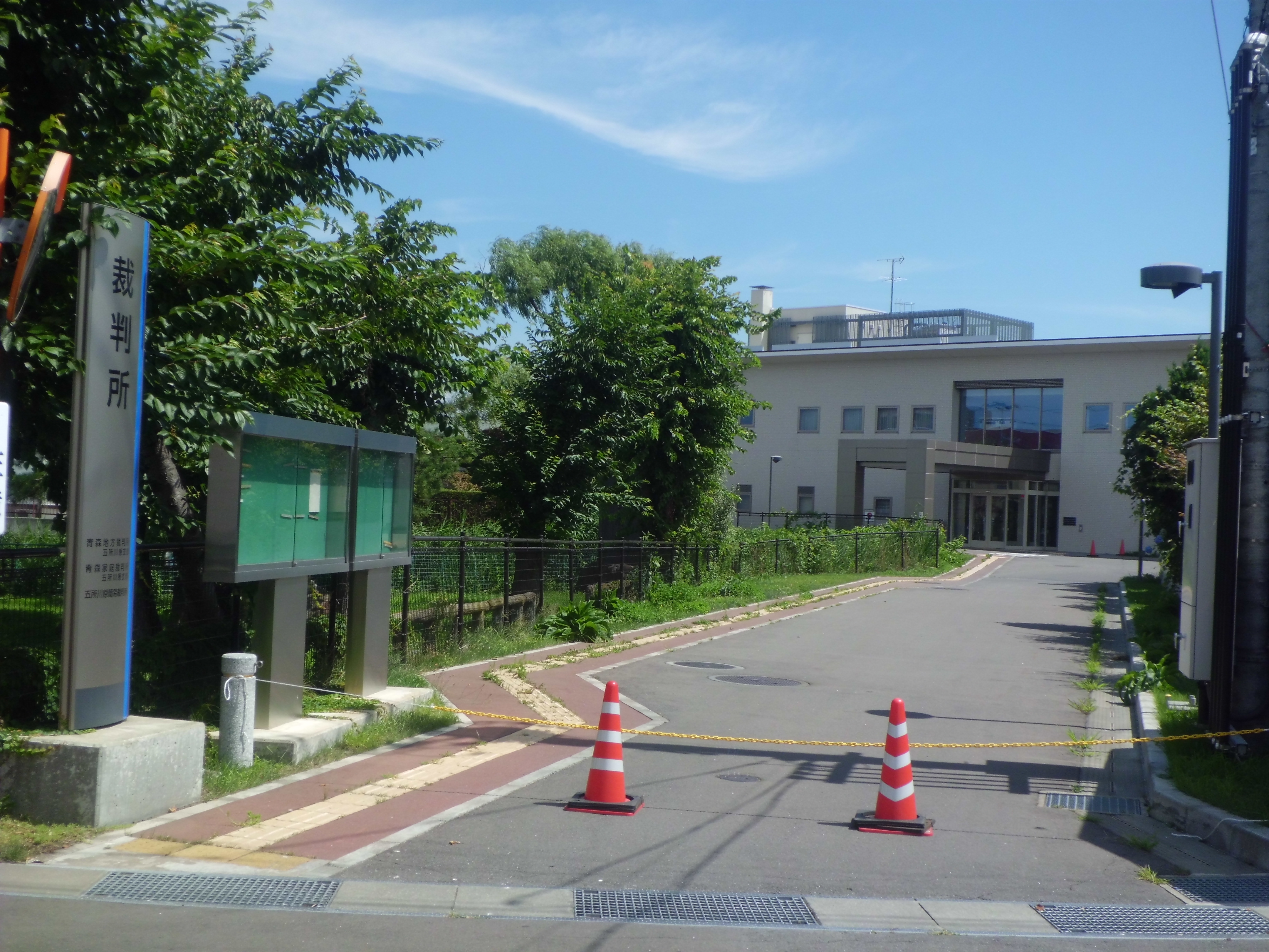 Goshogawara Summary Court